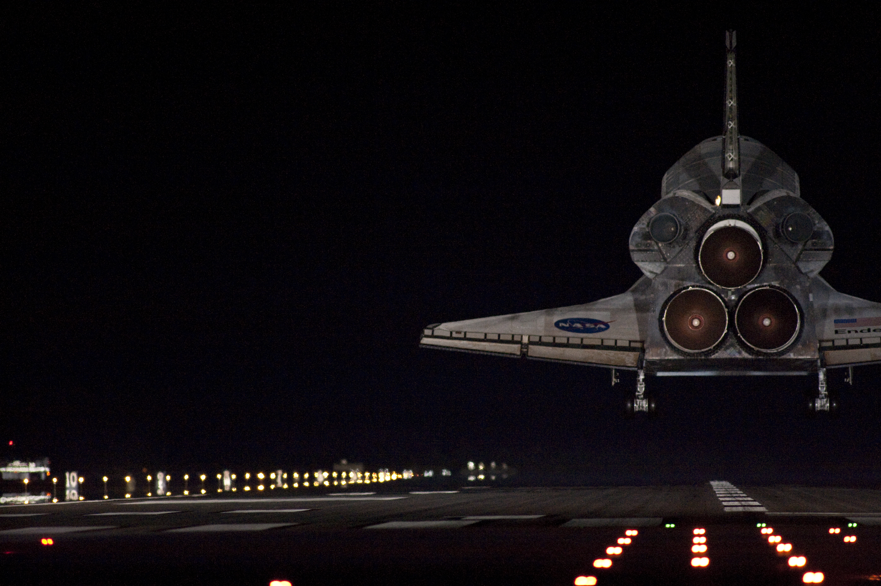 CAPE CANAVERAL, Fla. - Space shuttle Endeavour lands in darkness on Runway 15 at the Shuttle Landing Facility at NASA's Kennedy Space Center in Florida after 14 days in space, completing the 5.7-million-mile STS-130 mission to the International Space Station on orbit 217. Main gear touchdown was at 10:20:31 p.m. EST followed by nose gear touchdown at 10:20:39 p.m. and wheels stop at 10:22:10 p.m. It was the 23rd night landing in shuttle history and the 17th at Kennedy. Aboard are Commander George Zamka; Pilot Terry Virts; and Mission Specialists Robert Behnken, Nicholas Patrick, Kathryn Hire and Stephen Robinson. During Endeavour's STS-130 mission, astronauts installed the Tranquility node, a module that provides additional room for crew members and many of the station's life support and environmental control systems. Attached to Tranquility is a cupola with seven windows that provide a panoramic view of Earth, celestial objects and visiting spacecraft. The module was built in Turin, Italy, by Thales Alenia Space for the European Space Agency. The orbiting laboratory is approximately 90 percent complete now in terms of mass. STS-130 was the 24th flight for Endeavour, the 32nd shuttle mission devoted to ISS assembly and maintenance, and the 130th shuttle mission to date. For information on the STS-130 mission and crew, visit